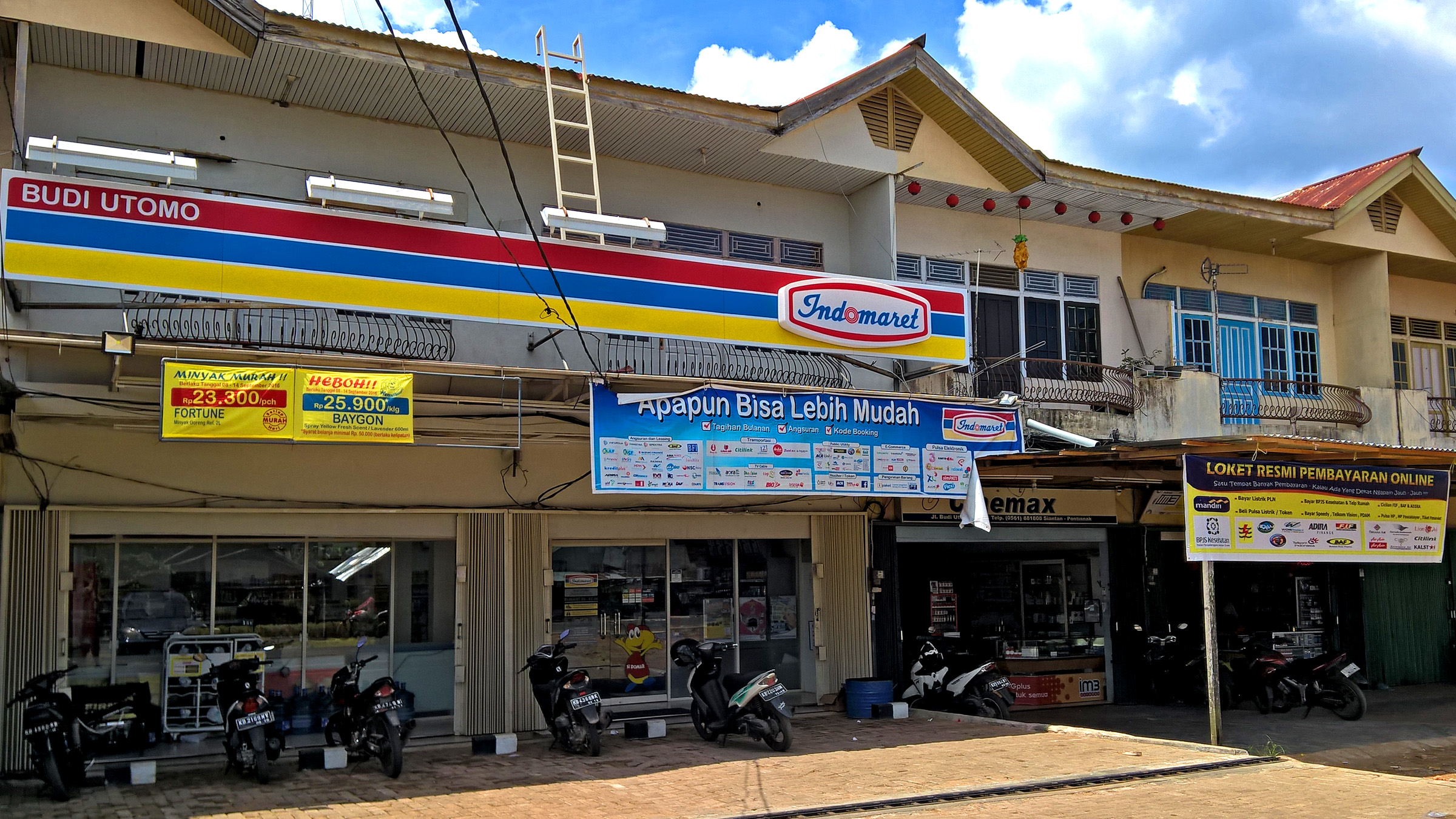 Indomaret "Budi Utomo" and Cinemax Shop, Jl. Budi Utomo, Ex. Siantan Tengah, Kec. North Pontianak